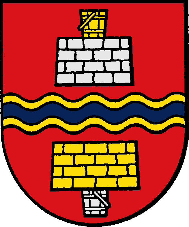 Coat of arms of Golmbach, Lower Saxony